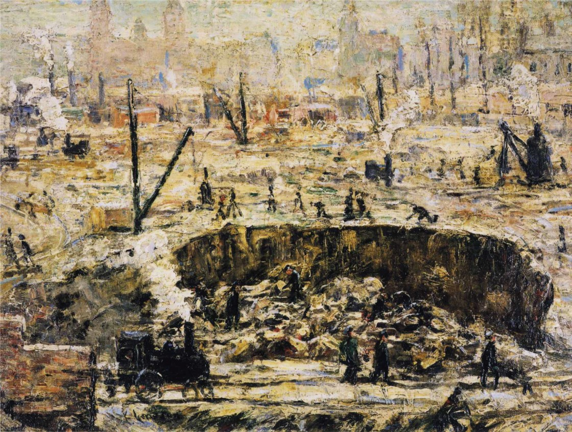 "Excavation - Penn Station," oil on canvas, by the Canadian-American artist Ernest Lawson. 18.5 in. x 24.25 in. Courtesy of the Frederick R. Weisman Art Museum. Image courtesy of The Athenaeum.